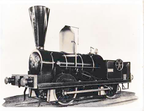 Natal Railway Co "Natal" (0-4-0WT) Location: Durban station, Natal